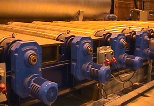 Shaft mount reducers driving a roller table